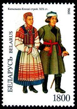 Kopylcko-Kletsky Stroj stamp